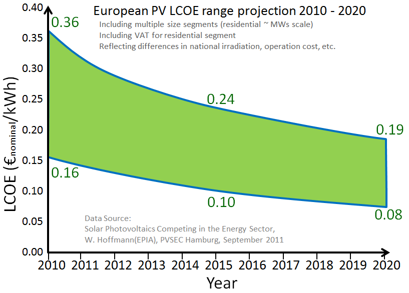 European PV LCOE range projection 2010-2020 Includes from residential to MW-scale size segments Includes crystalline silicon and thin film technologies Reflects differences in national irradiation, operation costs Includes VAT for residential segment